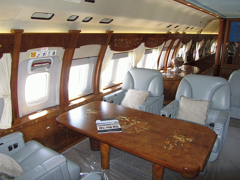 Boeing Business Jet interior